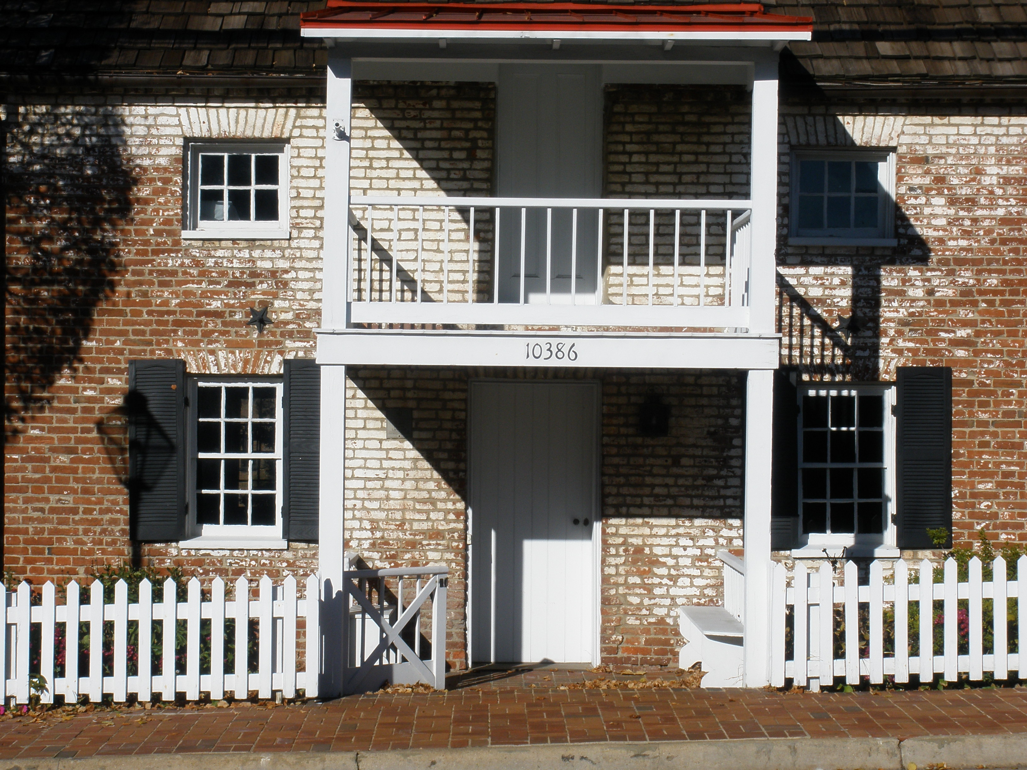 Ratcliffe-Logan-Allison House